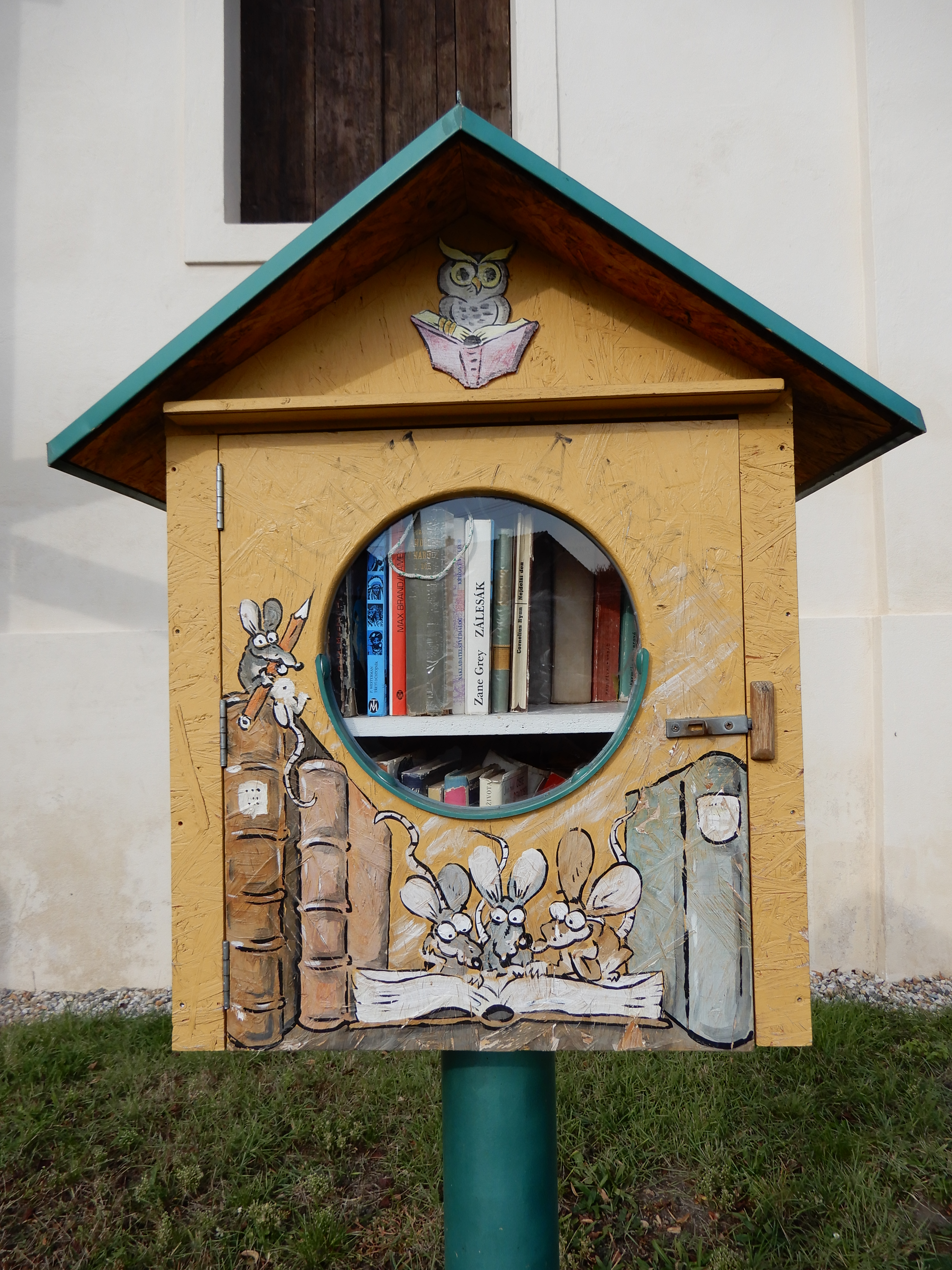 Small public library on the village green of Lobkovice (district Neratovice), Czech Republic